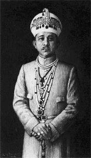 free picture